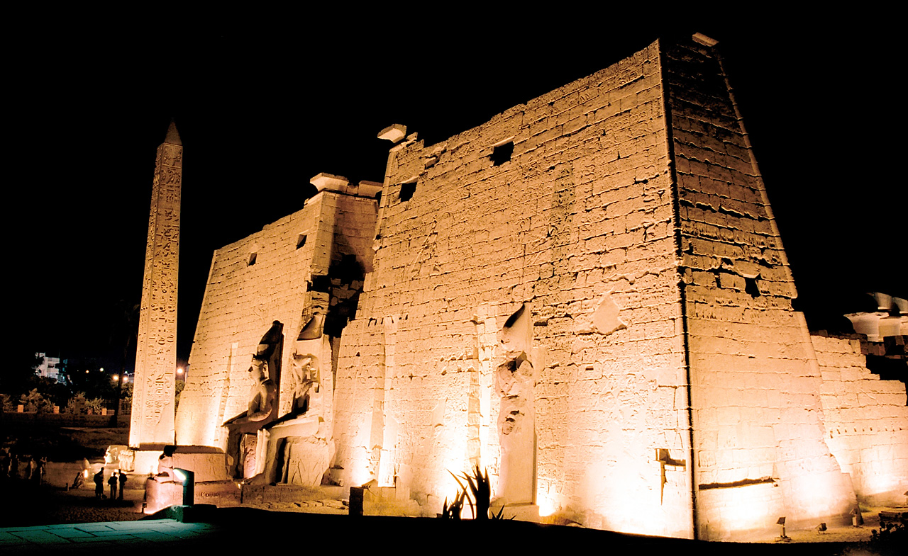 A front, night view of the Luxor temple, Egypt.